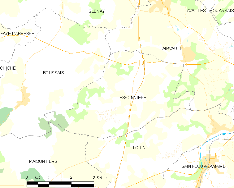 Map of French municipality Tessonnière